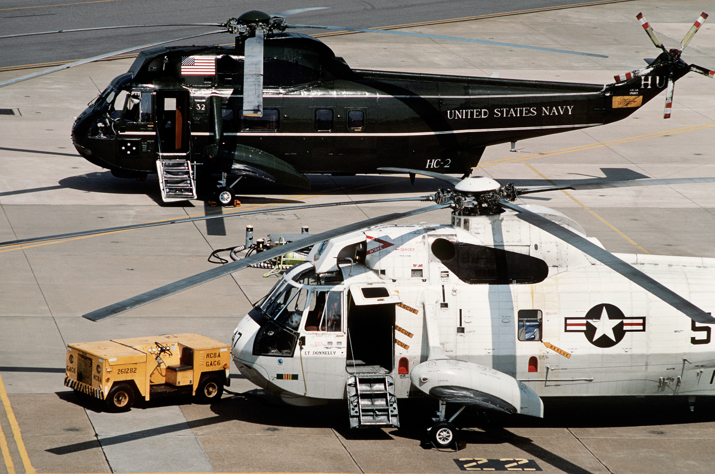 A U.S. Navy Sikorsky VH-3A Sea King (BuNo 150613) and a SH-3G of Helicopter Combat Support Squadron 2 (HC-2) stand on the flight line following their arrival at the Naval Air Station Oceana, Virginia (USA), in 1991.